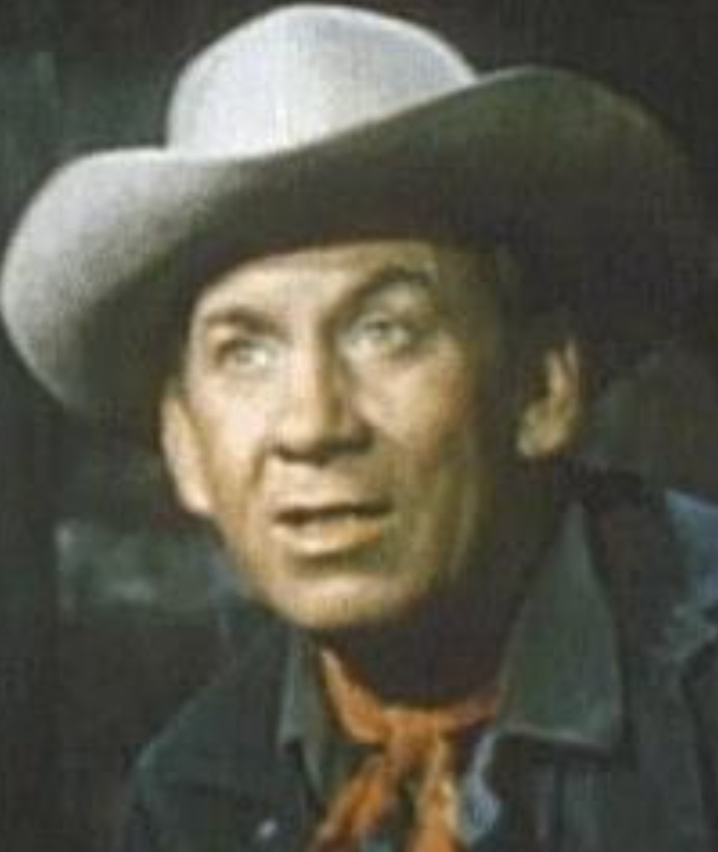 Fuzzy Knight in the public domain movie Adventures of Gallant Bess (1948).